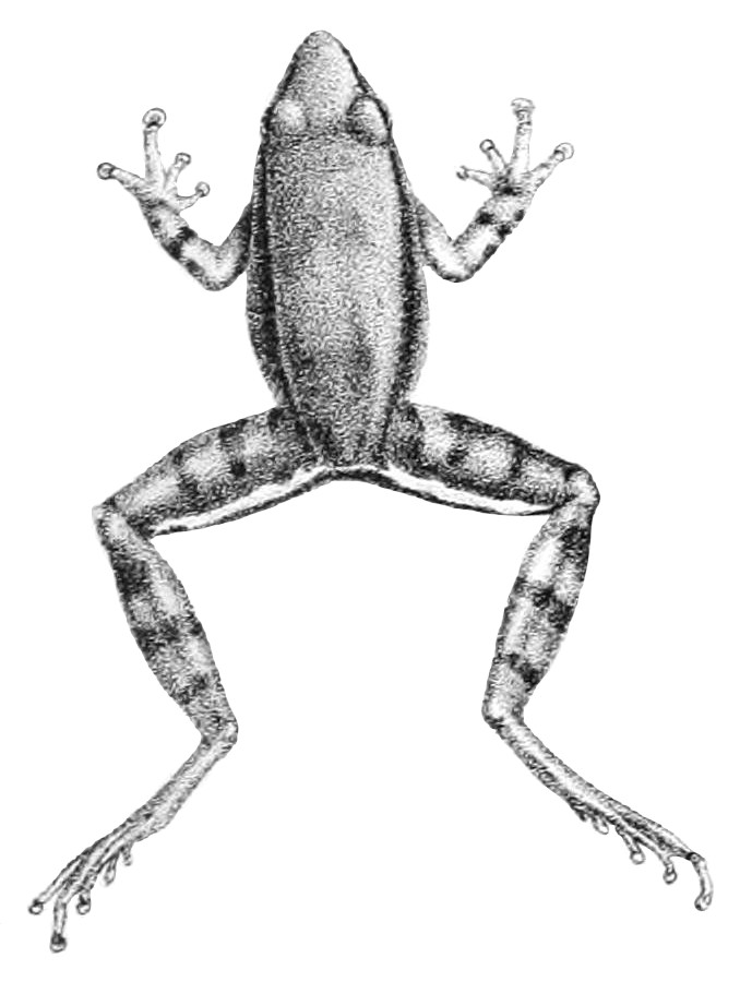 Ixalus fuscus = Micrixalus fuscus